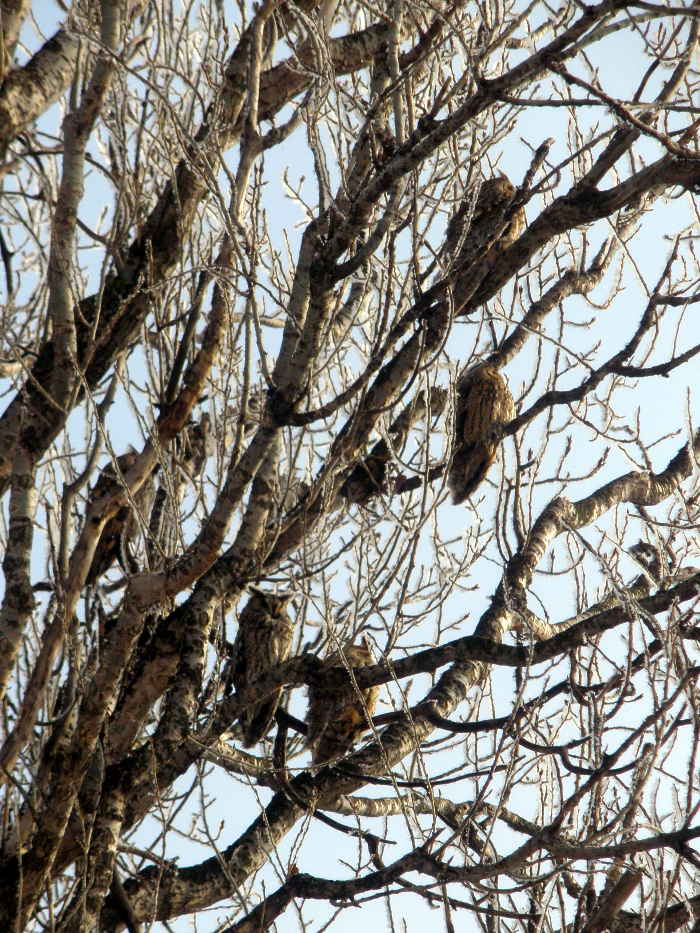 Long-eared Owls Asio otus on poplar. Mužlja, Vojvodina, Serbia.